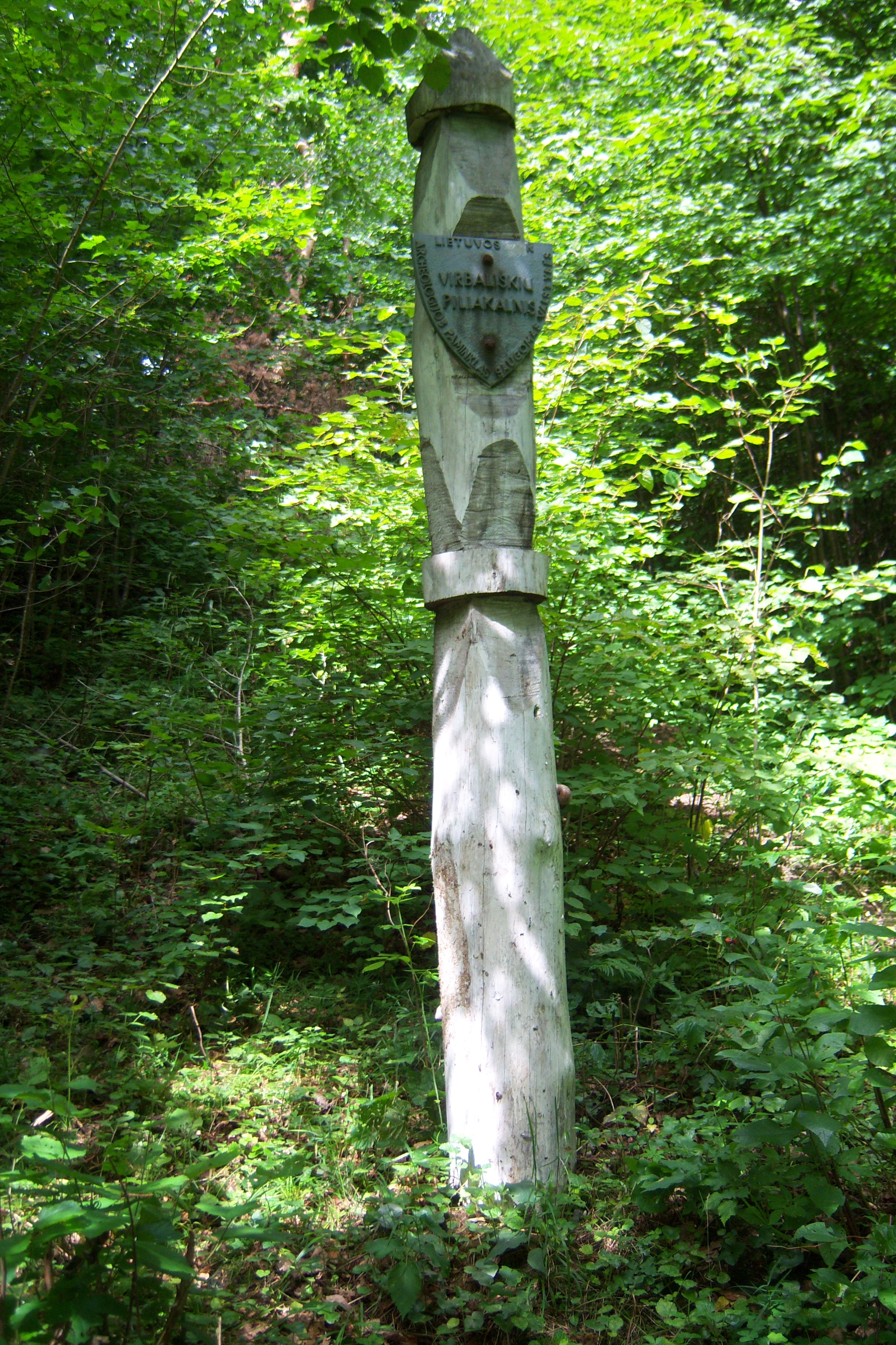 Virbališkiai hillfort, Kaunas district, Lithuania